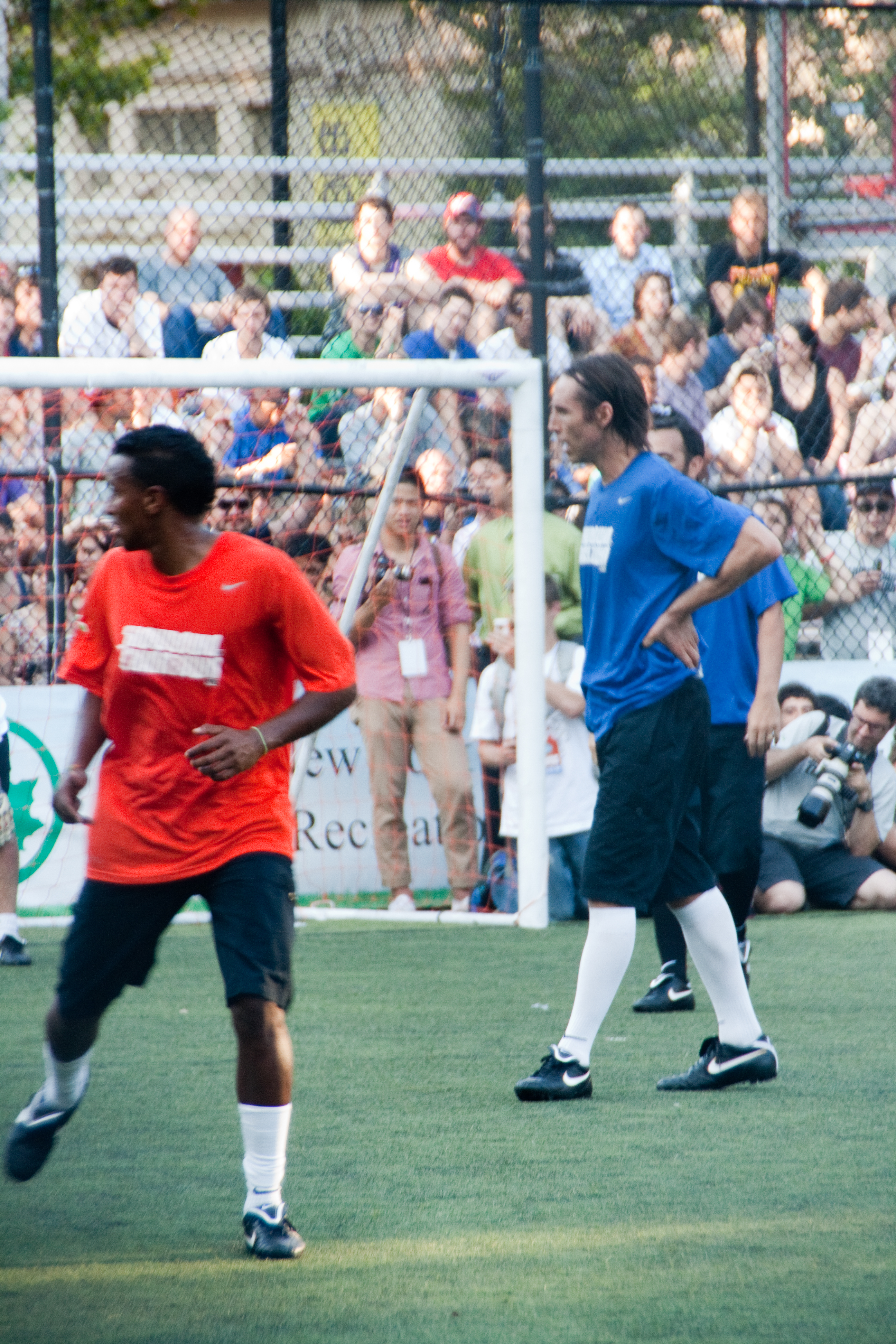 Steve Nash playing in his charity soccer match Showdown in Chinatown 2010